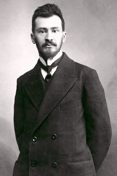 Peter Dravert - student of the Kazan Imperial University. 1914, Kazan, Russian Empire.